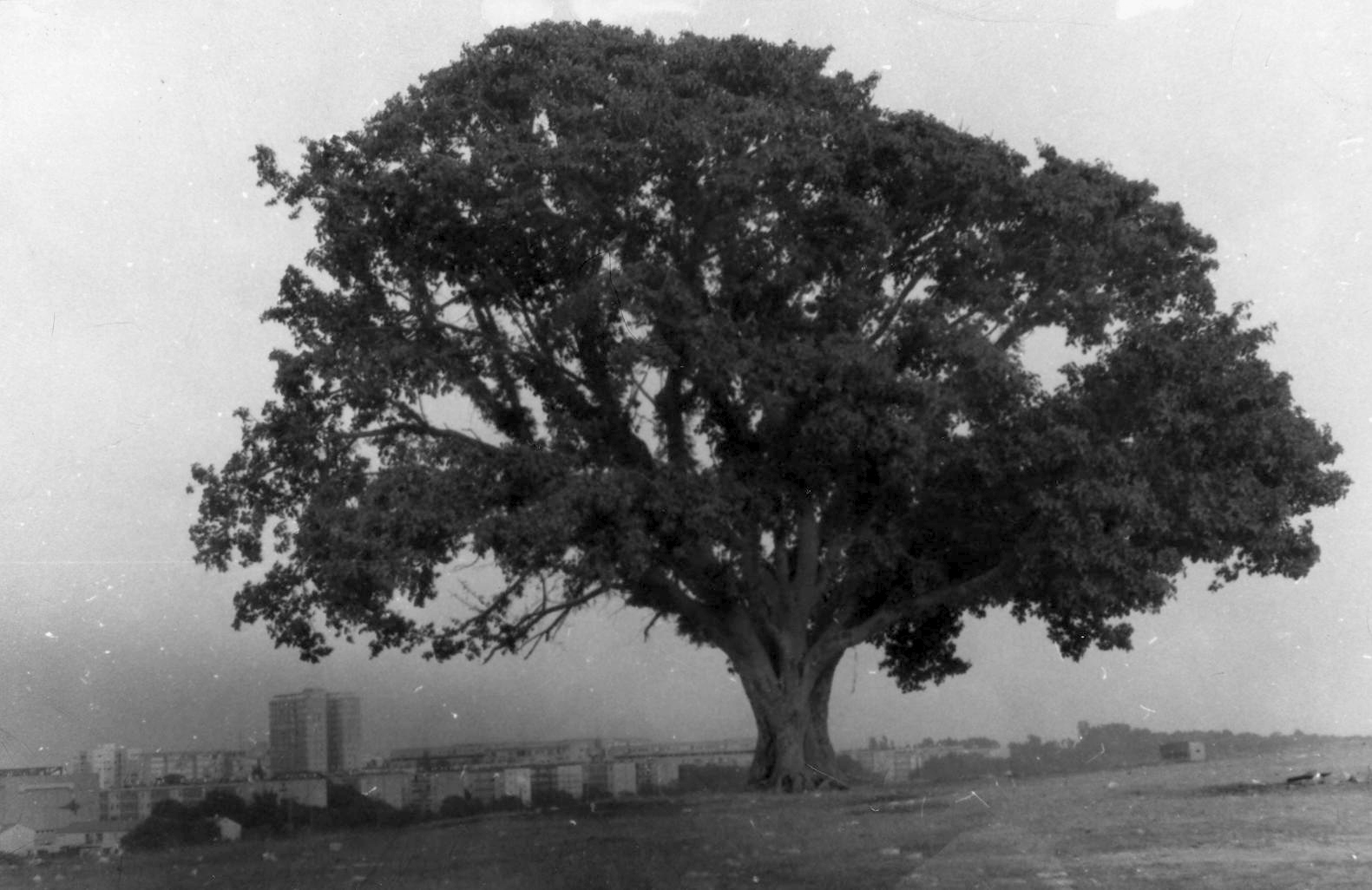 Cities in Israel